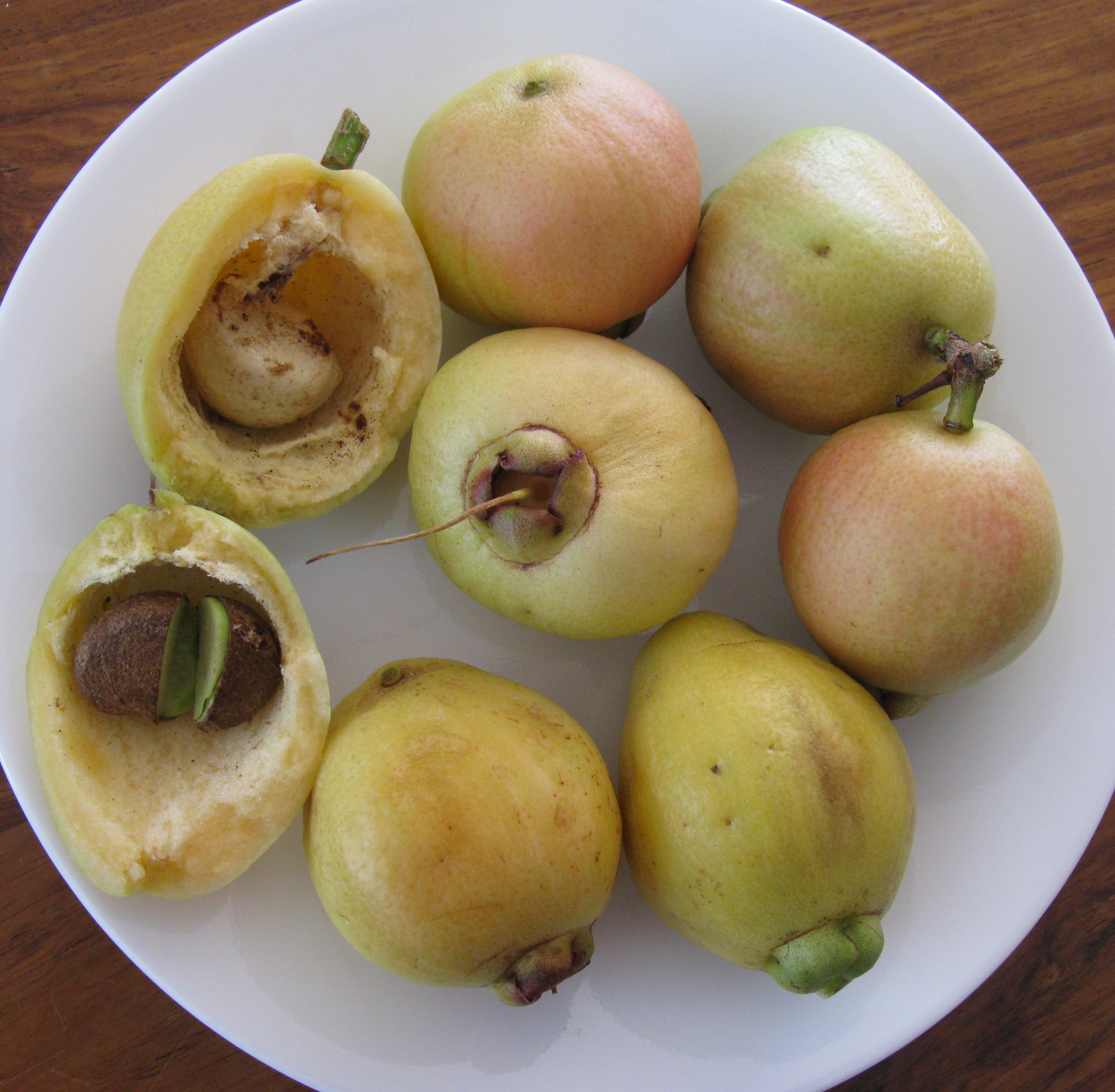 Syzygium jambos Fruit, one ripe berry split to show seeds loose in cavity. One seed split to show green cotyledons in membranous testa.